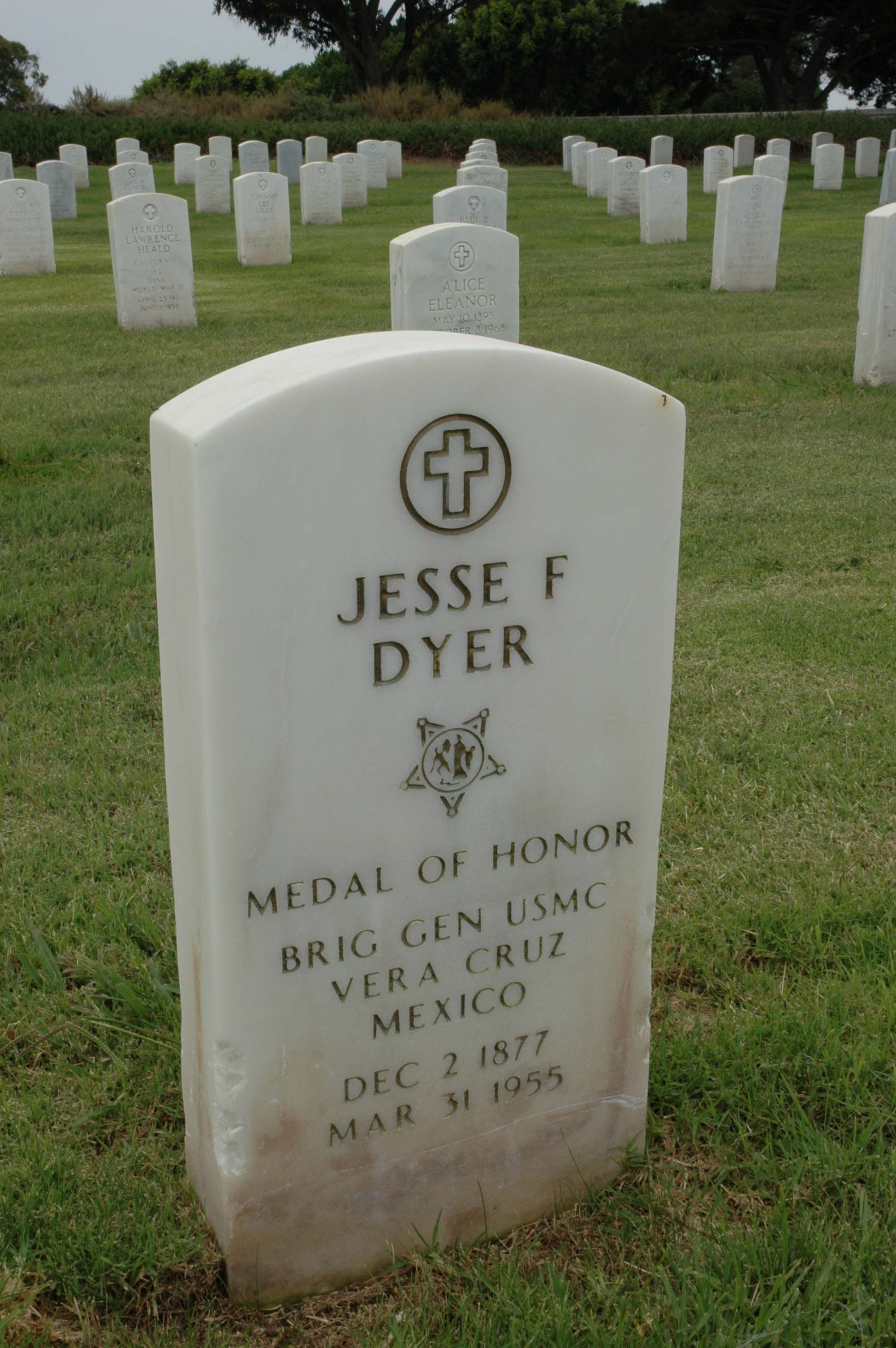 Resting in Section P, Grave 1606, at Fort Rosecrans National Cemetery in San Diego is Brig. Gen. Jesse Farley Dyer. Dyer was a captain when he earned his Medal of Honor while serving with the Marine and Naval landing force that occupied Vera Cruz April 21-22, 1914. He later served in World War I, and Haiti and China during the 1920s and 1930s. He retired in 1942 and died of cerebral hemorrhage at the U.S. Naval Hospital in San Diego.